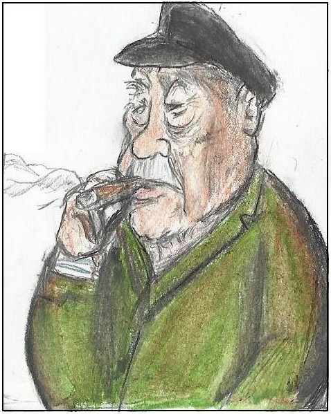 Christian Mortensen